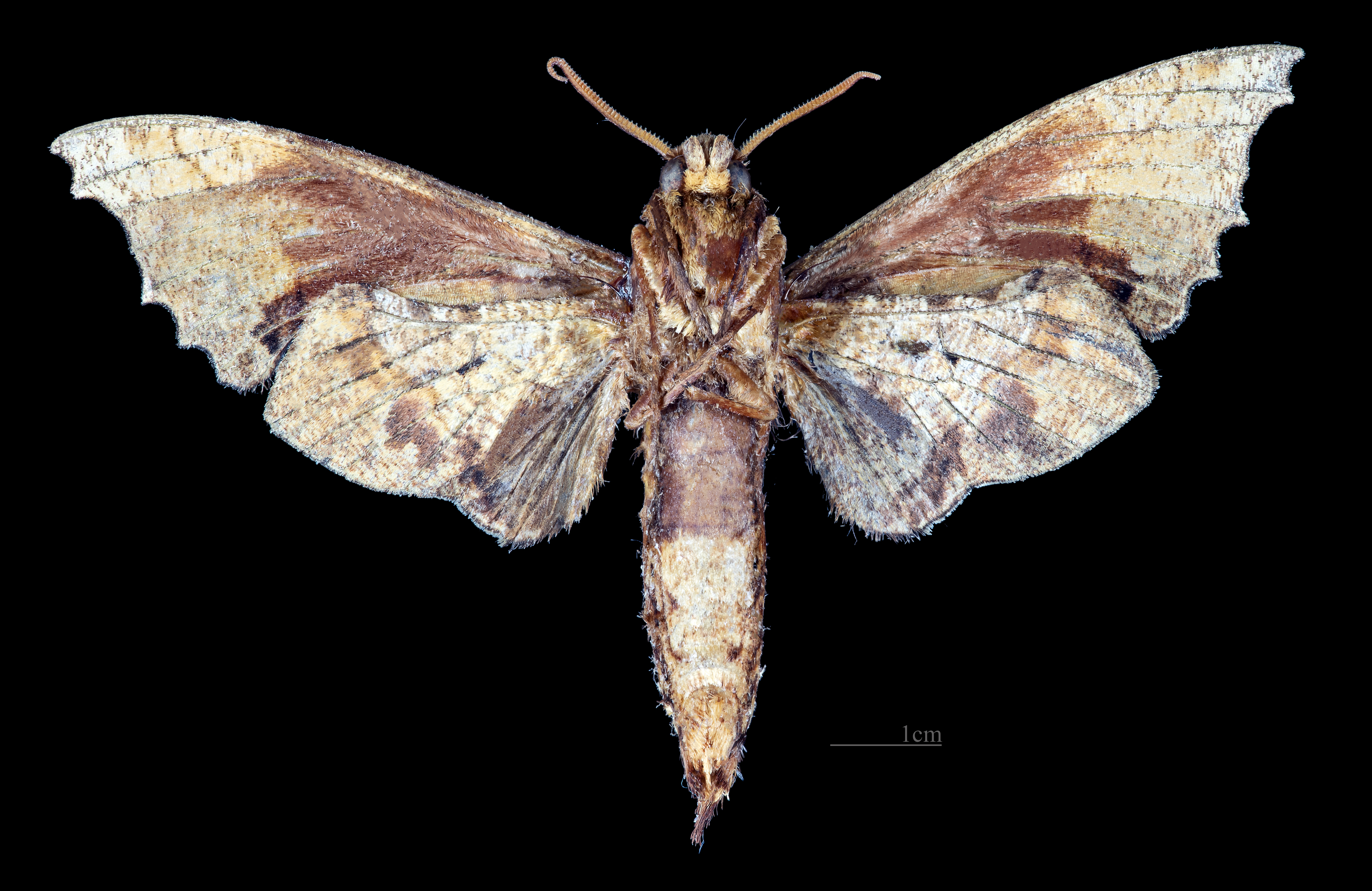 Smerinthulus olivacea - △ Ventral side Collection of the Mathematician Laurent Schwartz